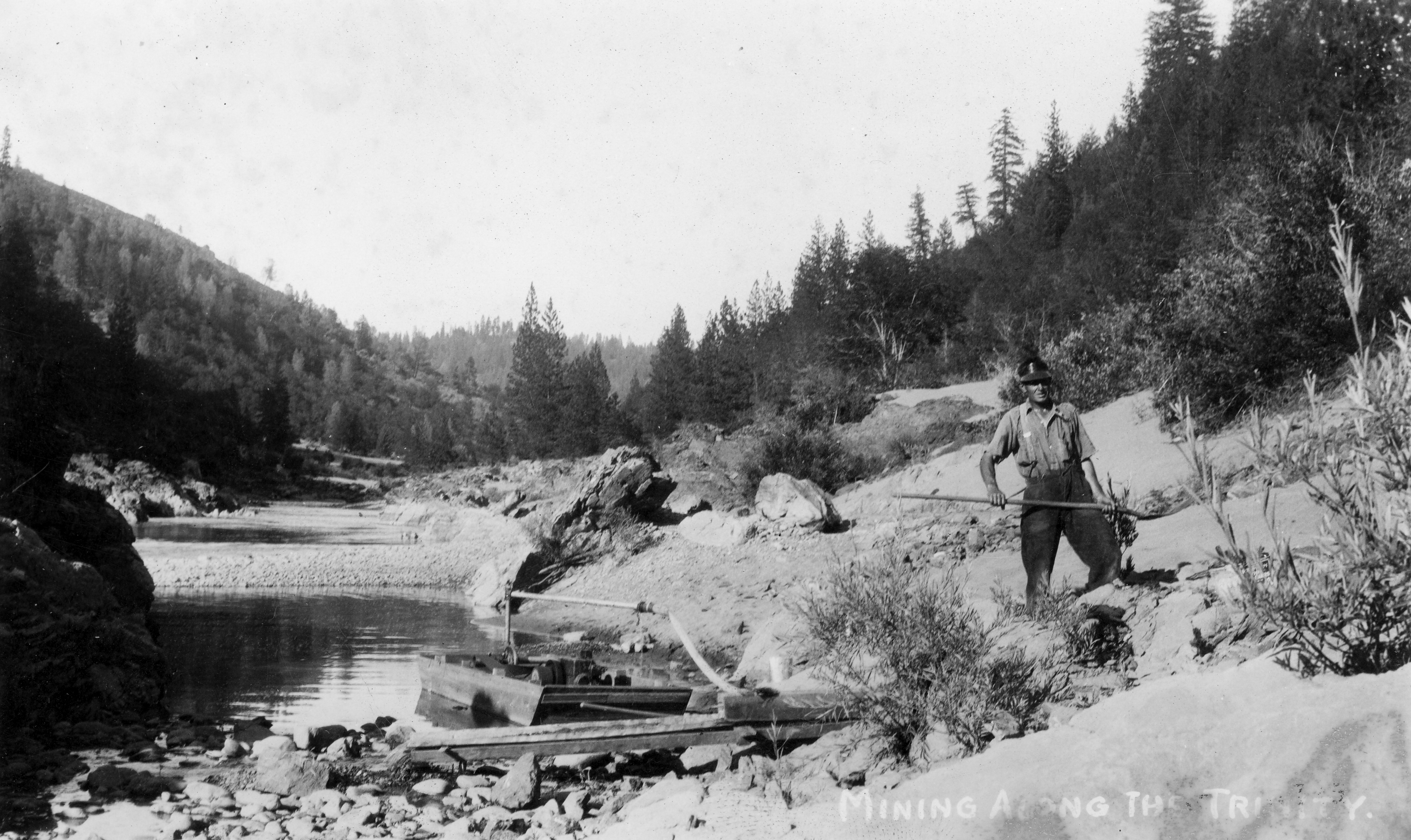 Miner on the Trinity River during the California Gold Rush. Photo courtesy Orange County Archives.